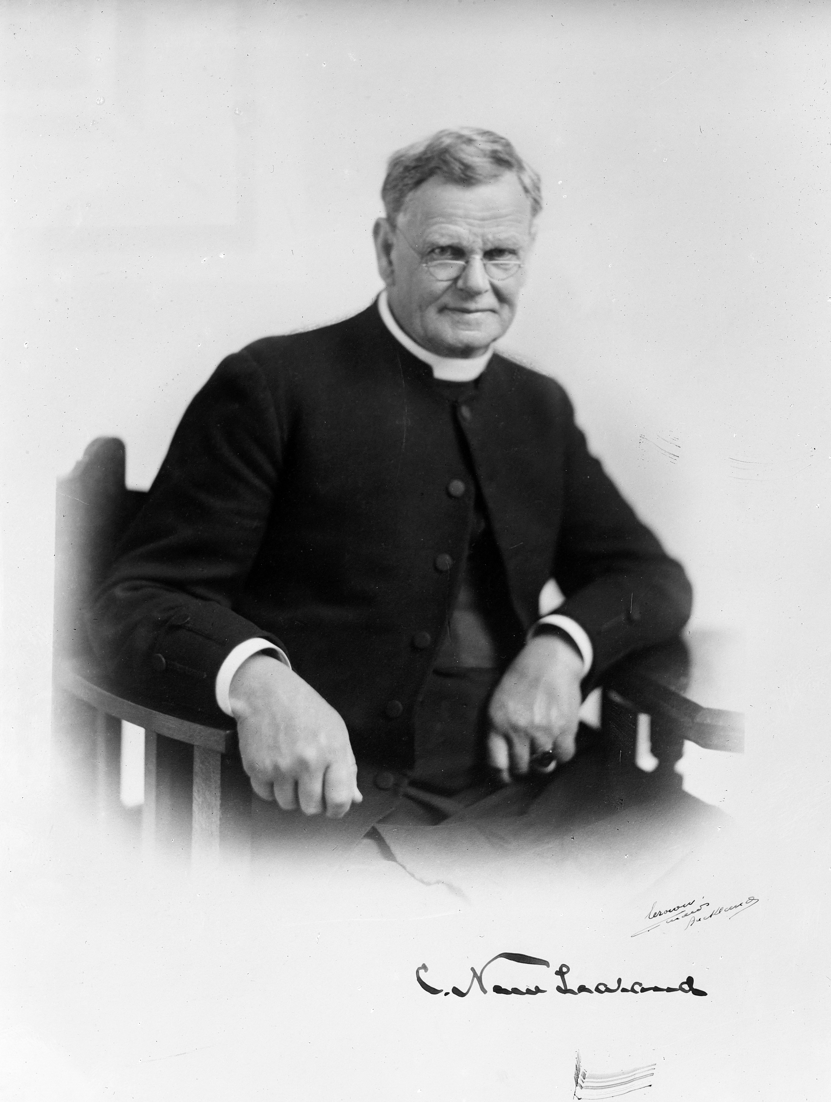 Churchill Julius, circa 1922. Photographer unidentified.